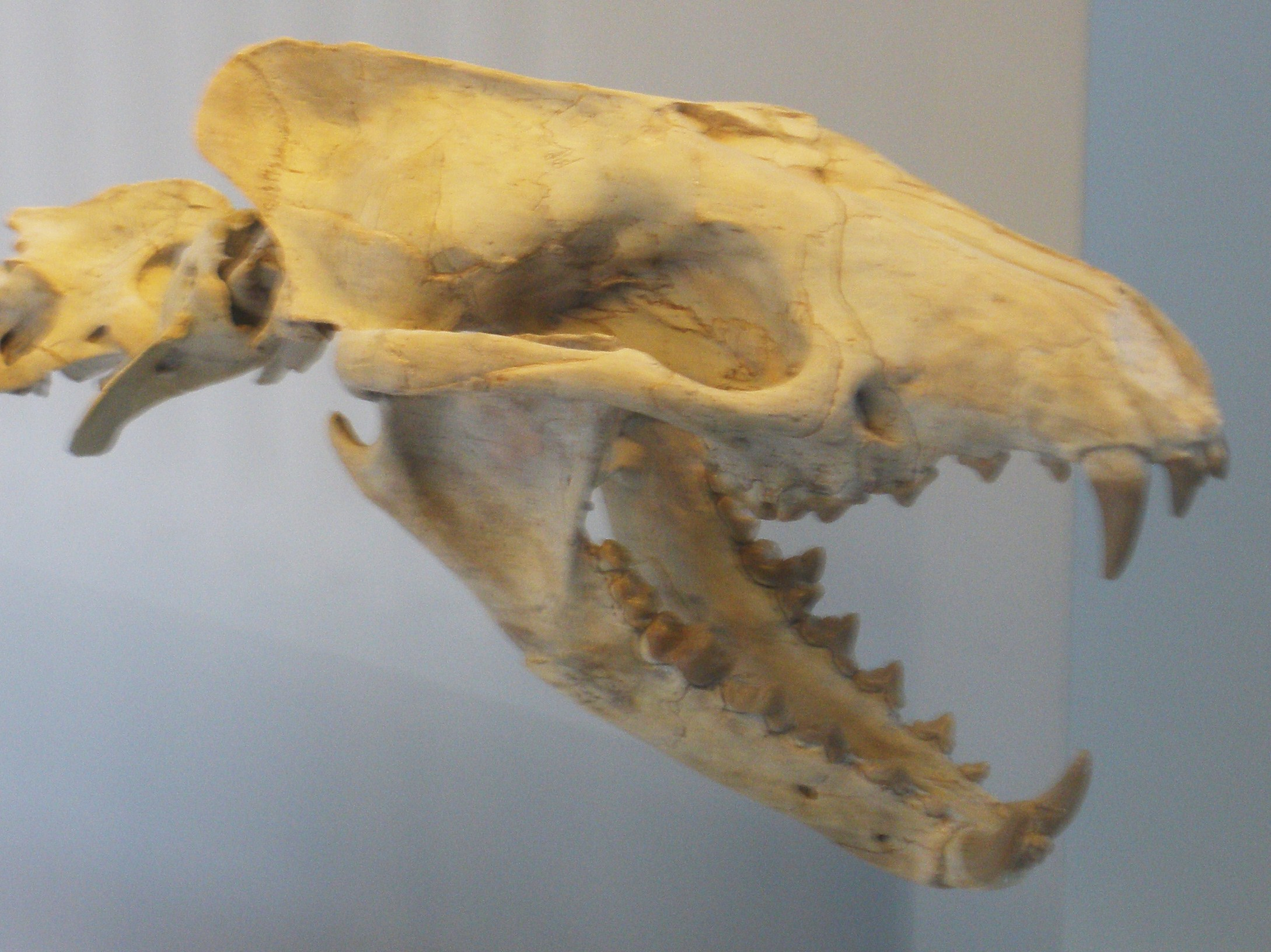 fossil daphoenus